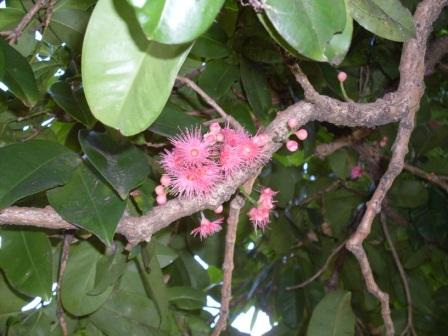 Syzygium_moorei_flowers_and_leaves